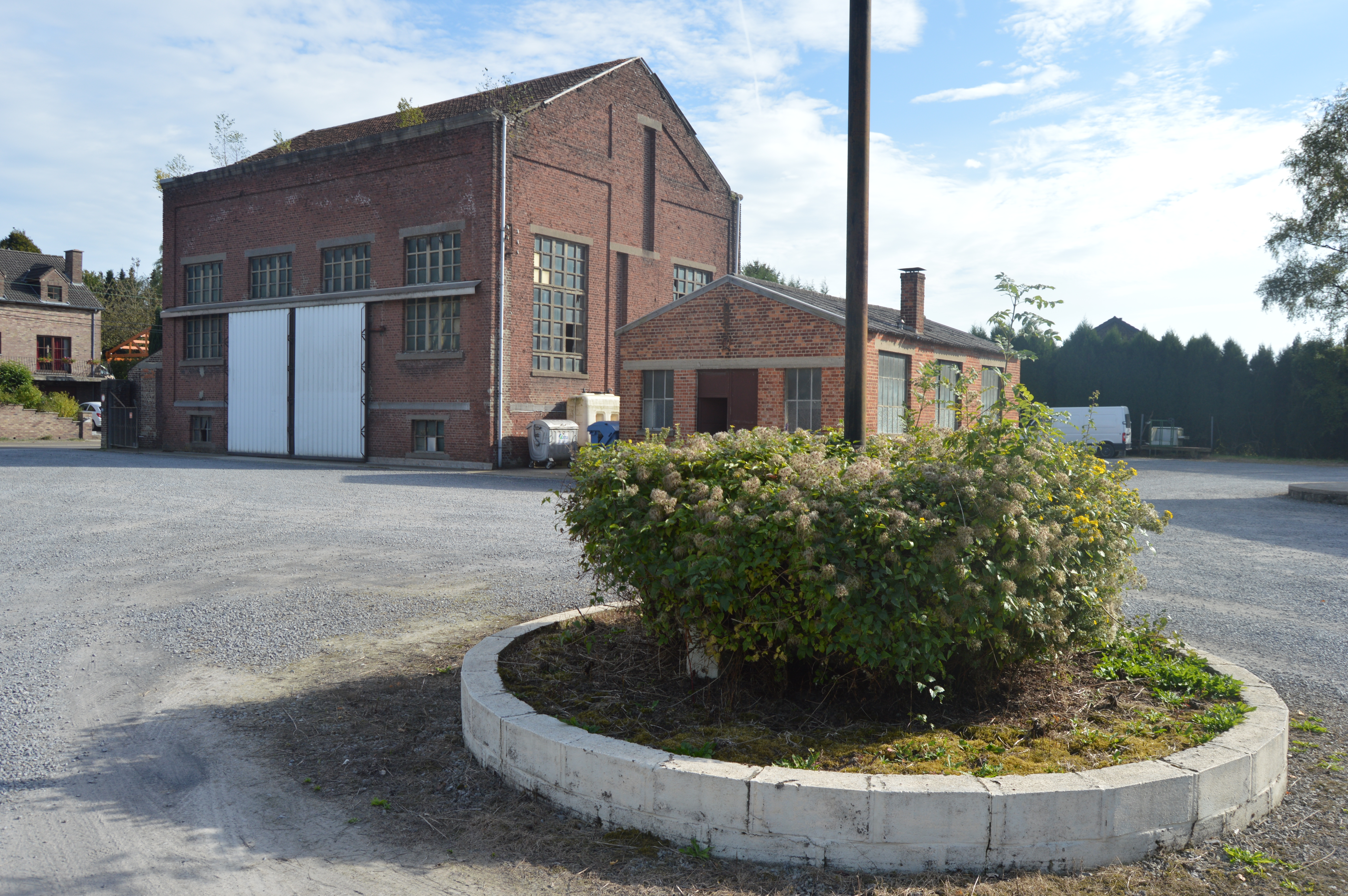 Ancient Soxhluse pit of the Werister coal mine in Fléron, Belgium